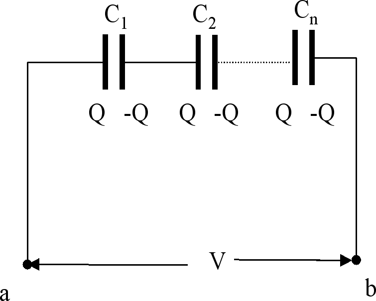 Series of condenser